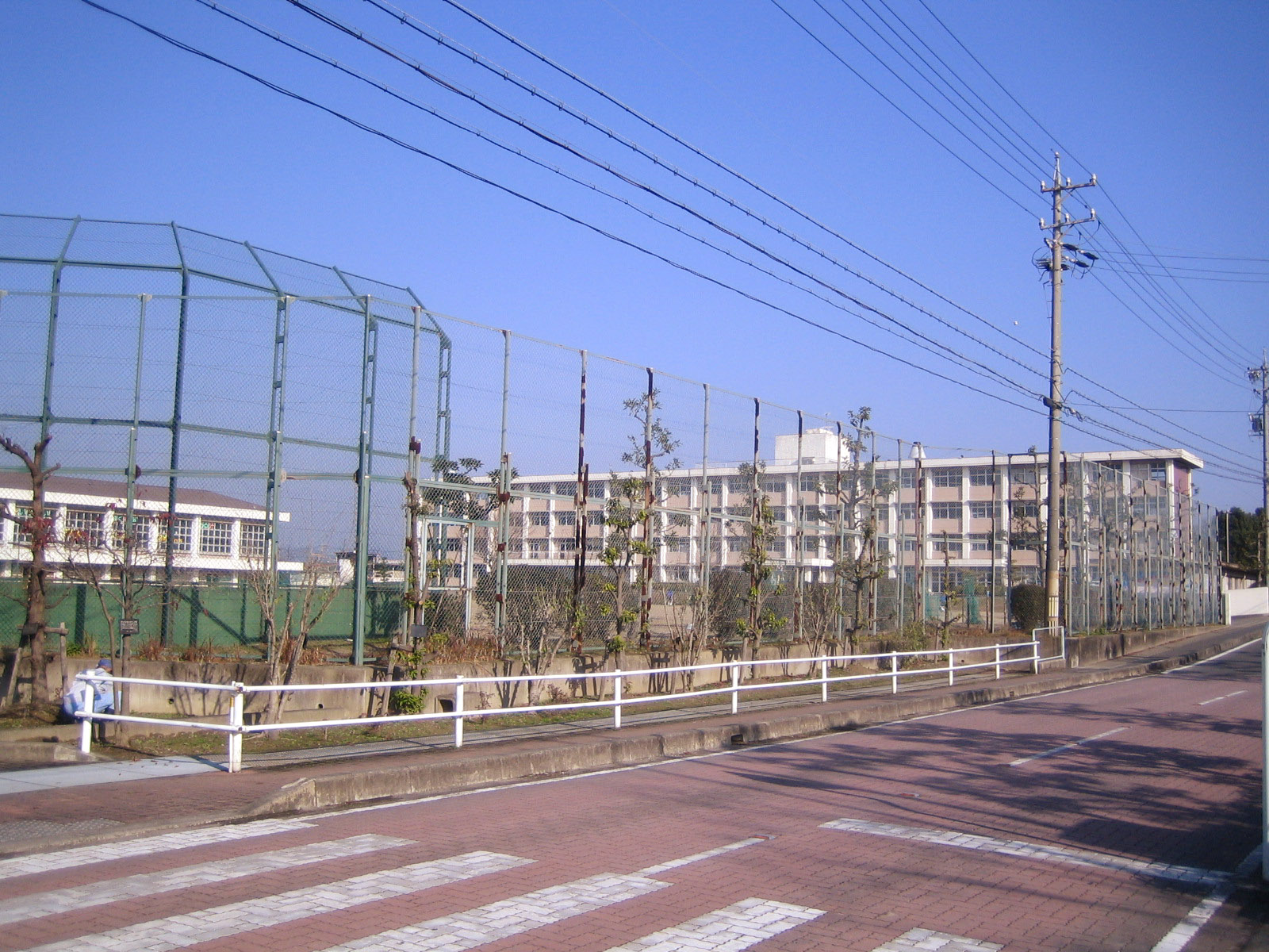 Fusokita Junior High School (扶桑北中学校), at Fuso, Aichi, Japan